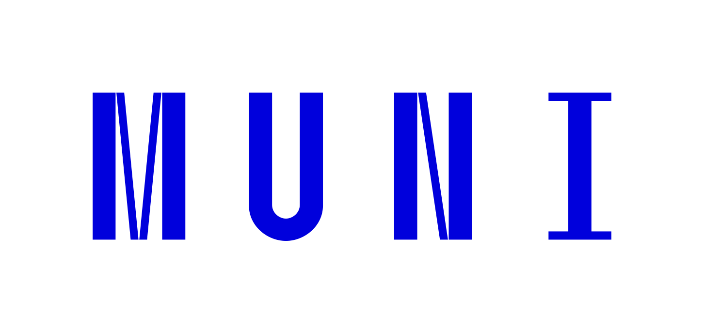 Logo of Masaryk University